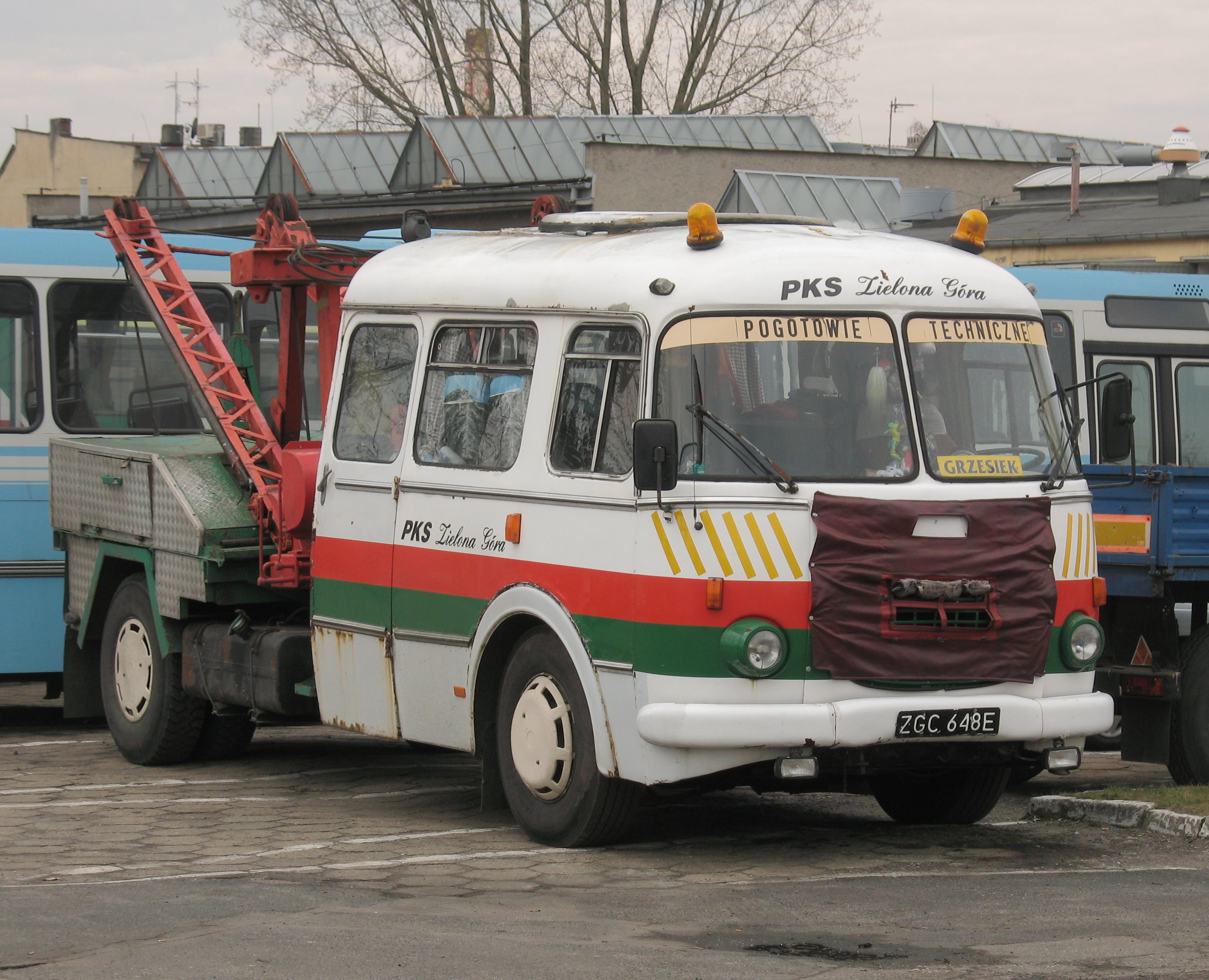 Jelcz 043 bus (#Z30022, reg. ZGC 648E) in Zielona Góra, Poland. PKS Zielona Góra operator. Rebuilt in 1989.